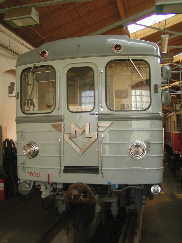 Train type Ečs of Prague's Metro at Střešovice train museum